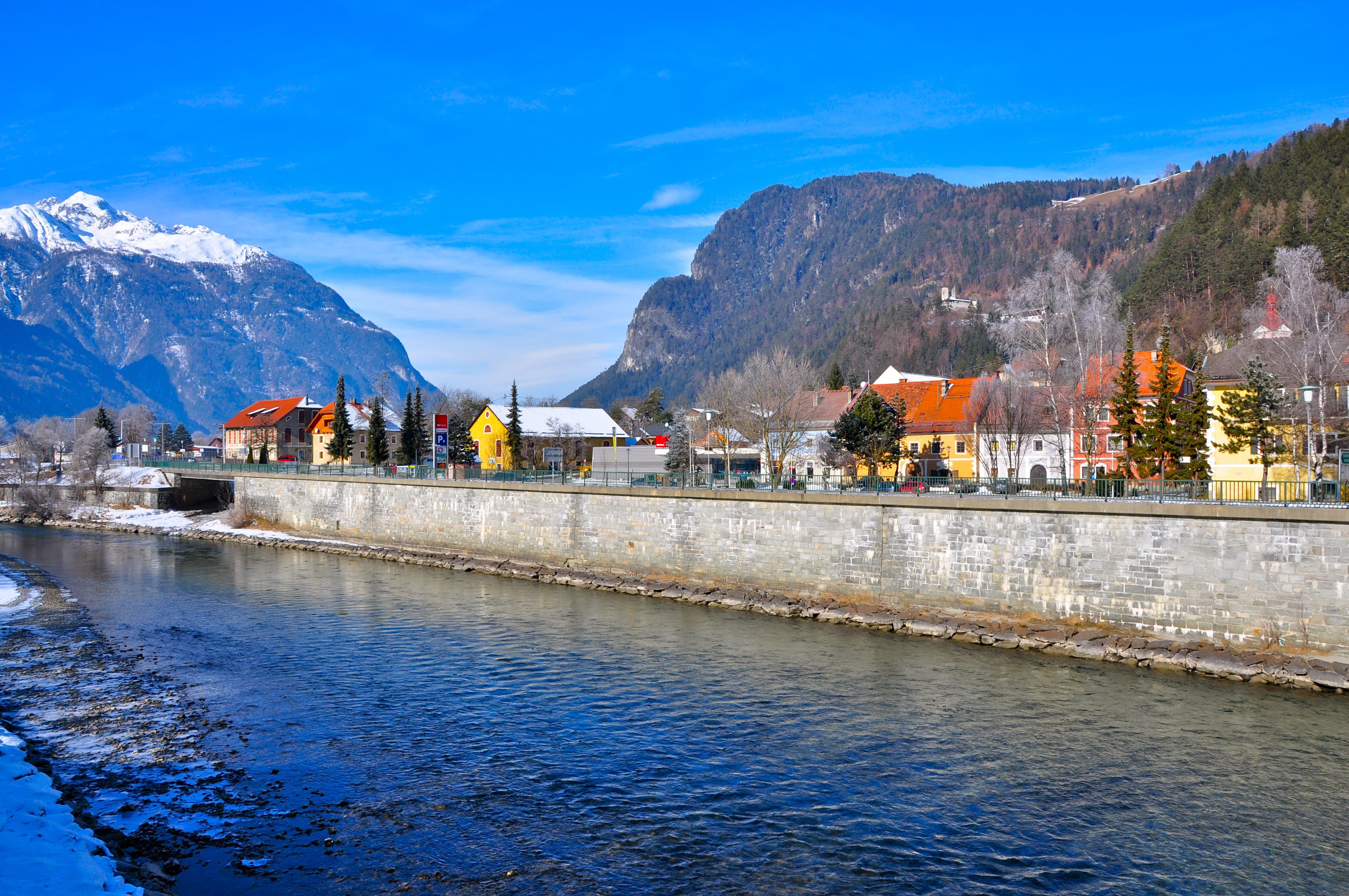 View at Oberdrauburg on the Drava with the "Carinthian Gate", municipality Oberdrauburg, district Spittal an der Drau, Carinthia, Austria